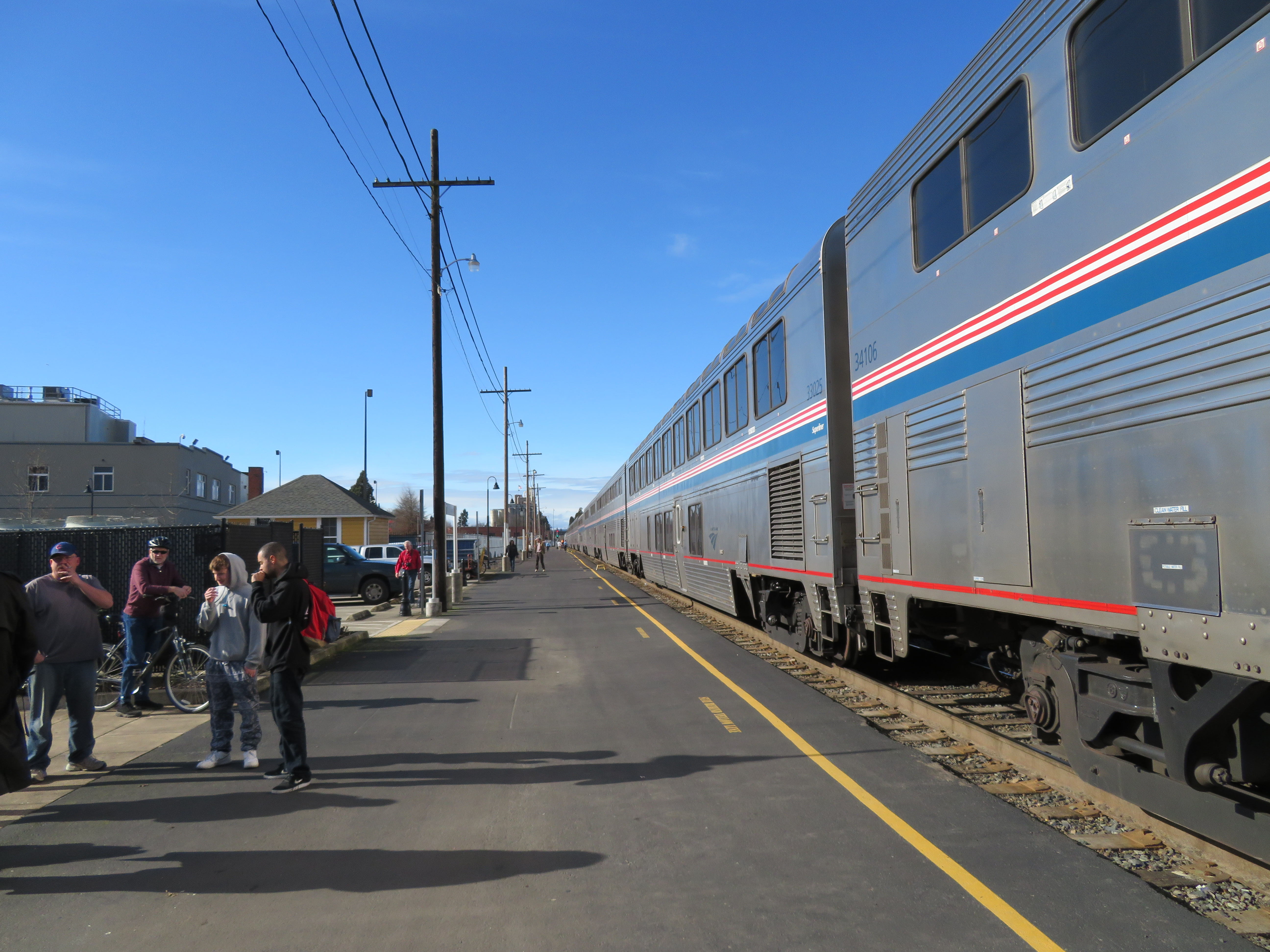 Northbound Coast Starlight at the Eugene-Springfield station in February 2018